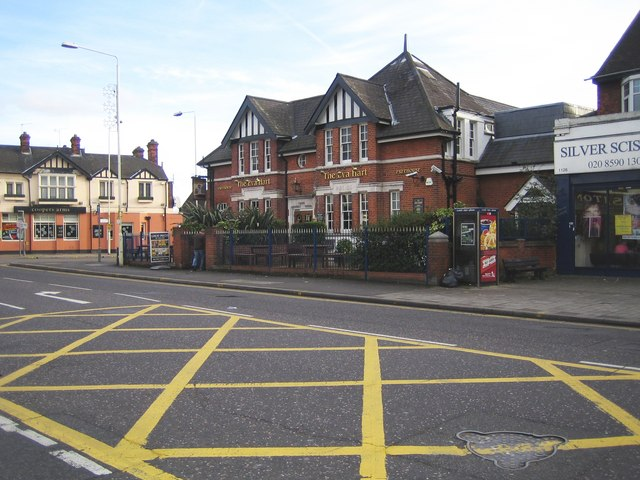 Chadwell Heath: The Eva Hart public house Eva Hart? She was a survivor of the Titanic disaster in 1912 and lived in nearby Japan Road. She became a magistrate and was awarded the MBE. She died in 1996. Quite what she would think of the conversion of Chadwell Heath's former Police Station (for this is what the building is) into a Wetherspoon's outlet named after herself can only be speculated on! The orange and peach coloured building is the Coopers Arms. However the two pubs are in different London Boroughs, the Eva Hart in Redbridge and the Coopers Arms in Barking and Dagenham.